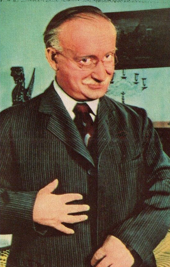 Photo of actor Eli Mintz from a 1953 series of NBC gum cards (for radio and television personalities) by Bowman Gum. He plated Uncle David in The Goldbergs.